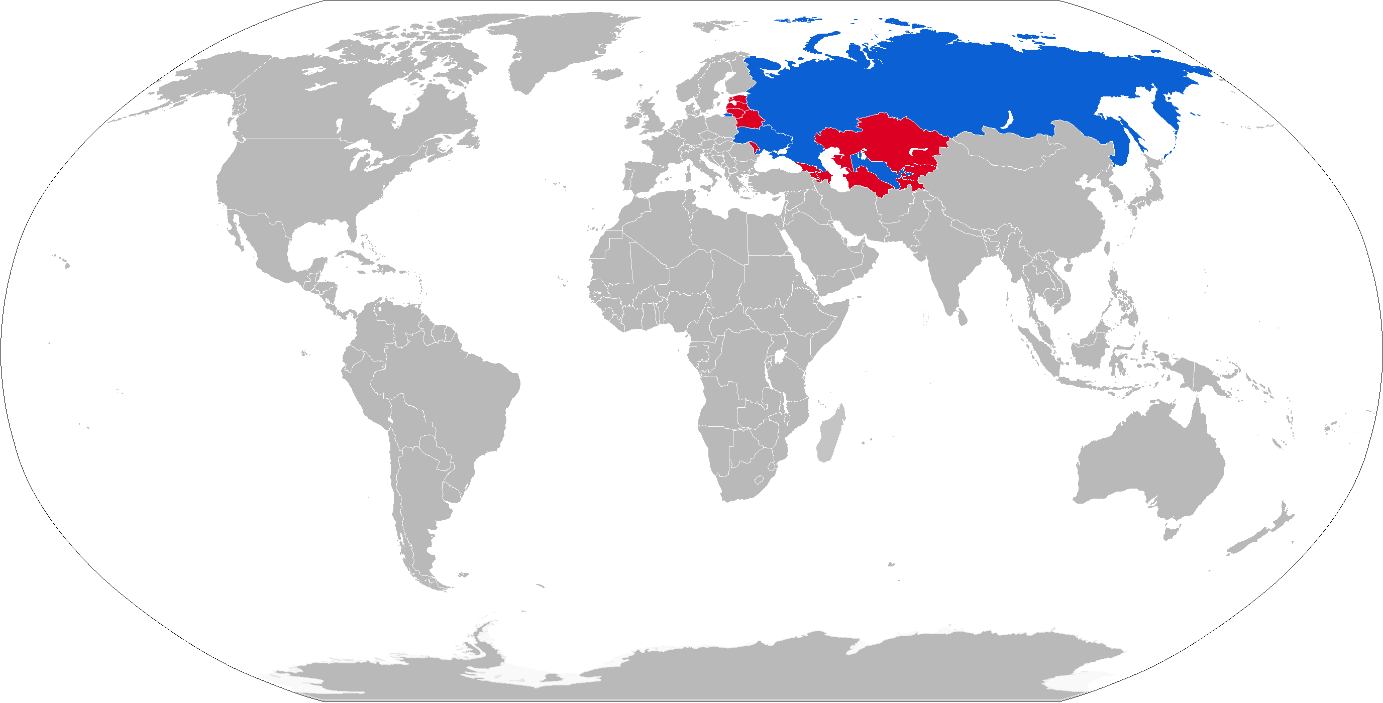 Map of BMD-2 operators in blue with former operators in red